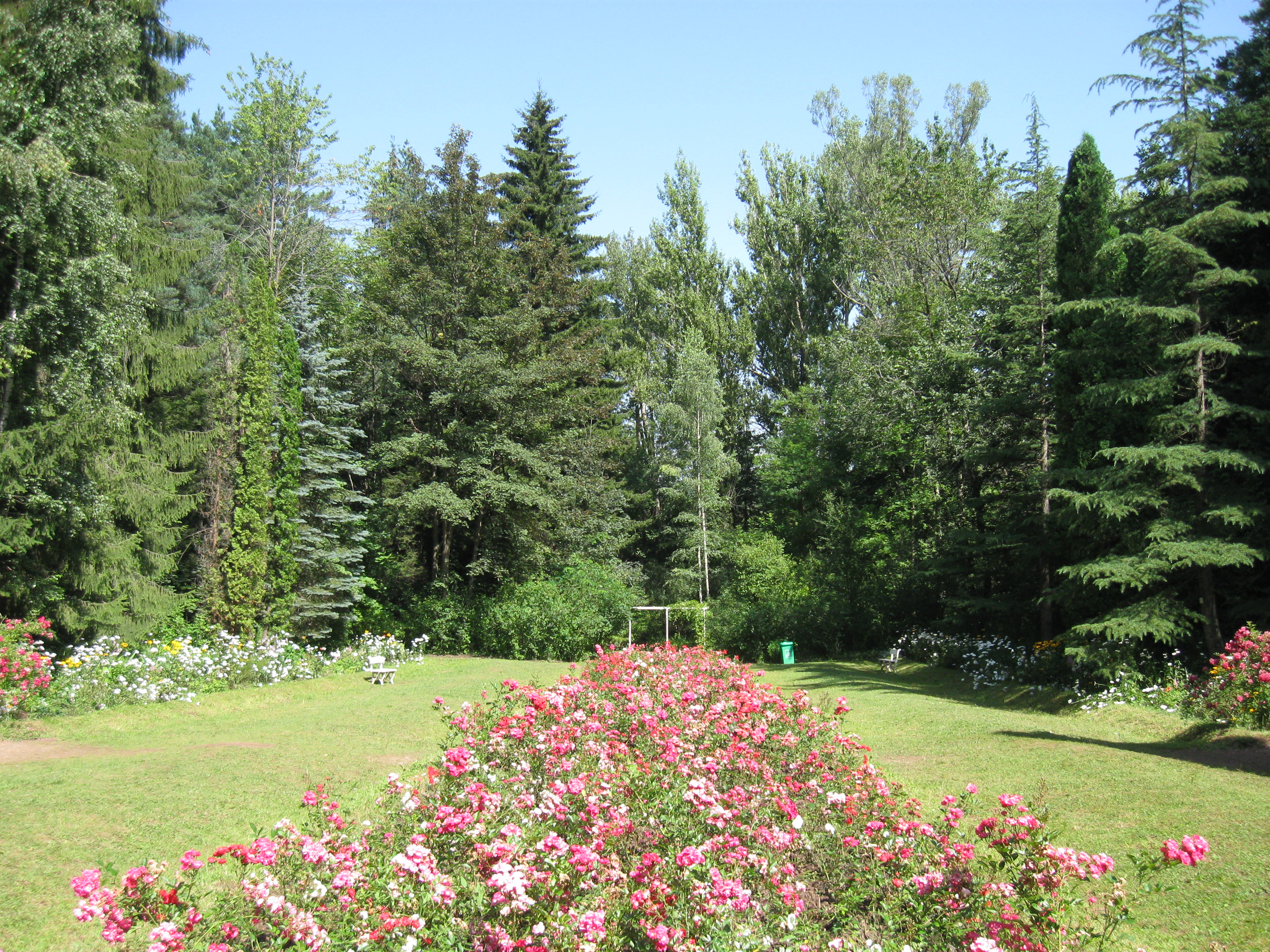 Officially Sochut Dendropark named after Edmund Leonowicz, commonly knowns as Stepanavan Dendropark (Armenian: Ստեփանավանի դենդրոպարկ), is an arboretum located near the Gyulagarak village, Lori Province, Armenia. Located around 85 km north of the capital Yerevan, the park was founded in 1931 by Polish engineer-forester Edmund Leonowicz. The arboretum is 35 ha in total of which 17.5 ha consist of natural forest and 15 ha of ornamental trees.